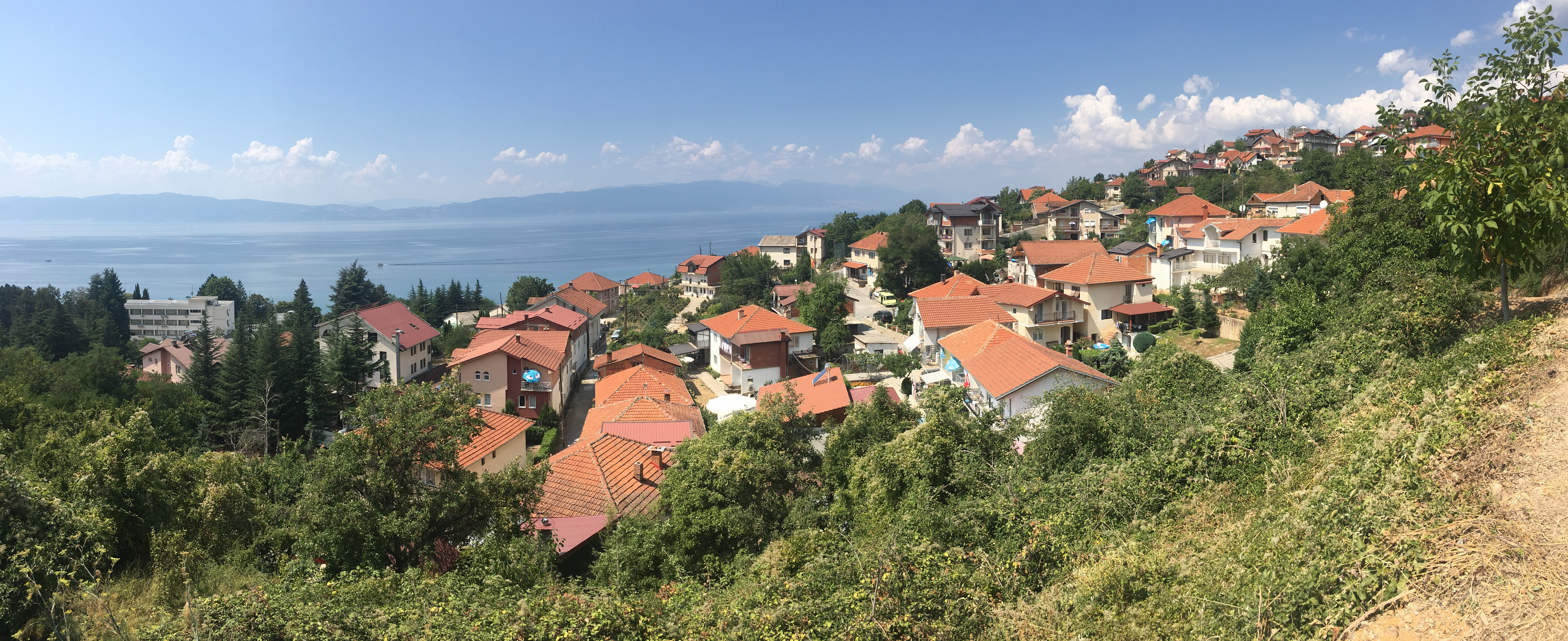 A panoramic view of the village of Dolno Konjsko